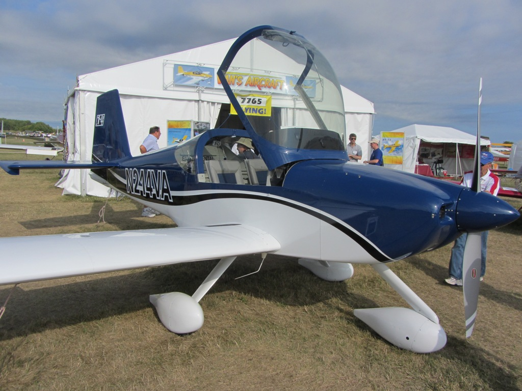 Vans RV-14